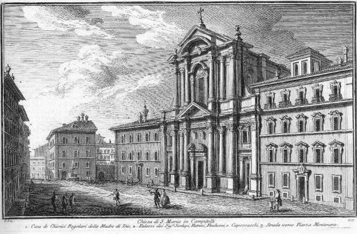 1) Monastery adjoining the church; 2) Palazzi Serlupi, Patrizi, Paluzzi e Capizucchi; 3) Street leading to Piazza Montanara. Vasi was not accurate about the palaces he listed. Only the Paluzzi and Capizucchi palaces are actually depicted in the plate.